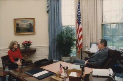 PRESIDENT BUSH GREETS KAY BAILEY HUTCHISON, STATE TREASURER OF TEXAS. MS. HUTCHISON PRESENTS THE PRESIDENT WITH A COFFEE CUP; OVAL OFFICE